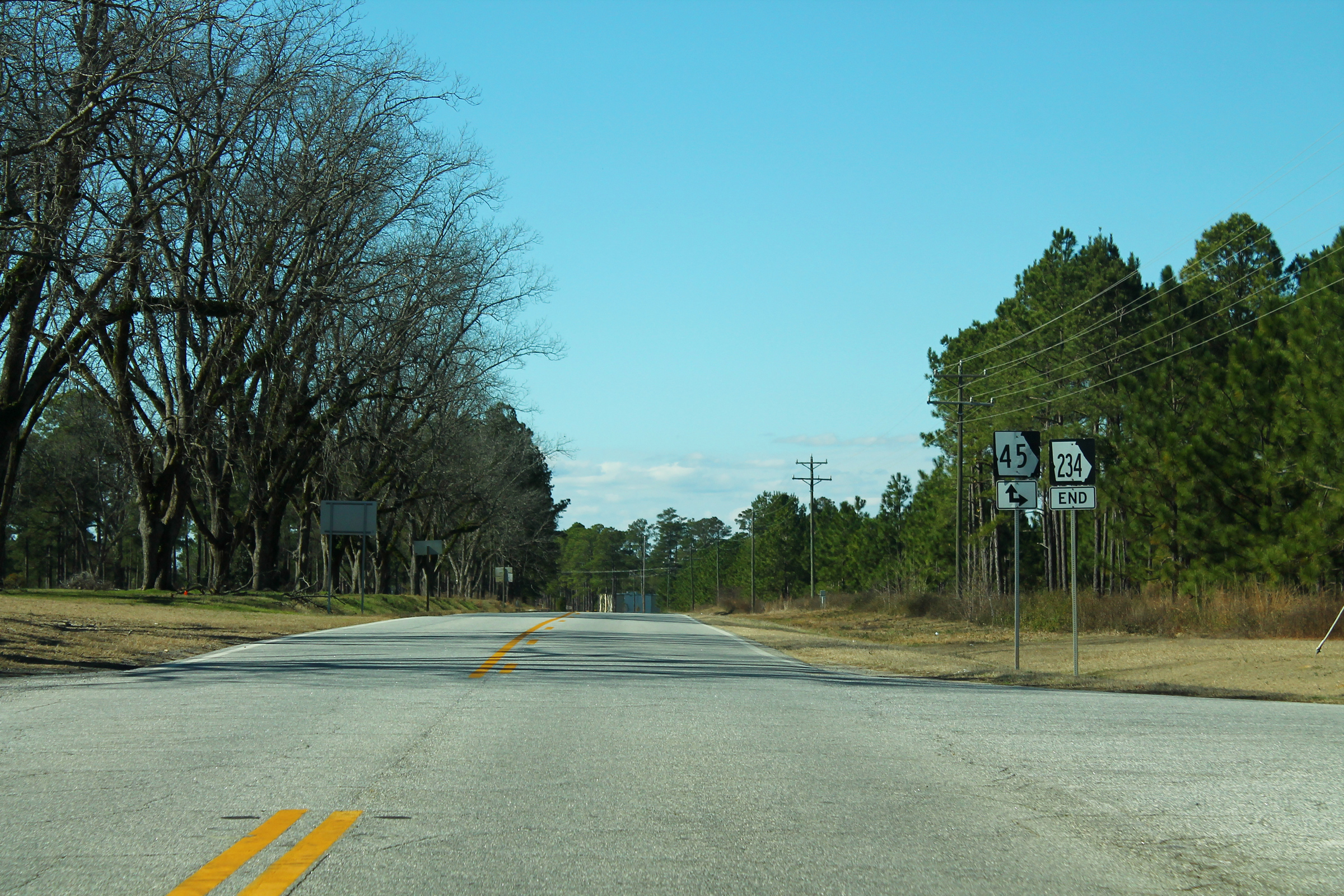 GA234wRoad-GA45nsSigns